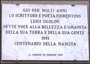 Commemorative marble plaque on the home of Italian writer Luigi Ugolini in Florence, Italy, placed on December 11, 1993 when the residence was designated an official monument by the city.